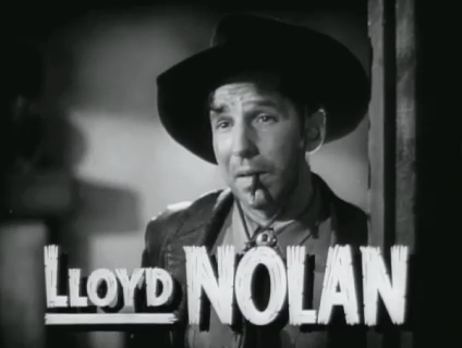 Lloyd Nolan in Apache Trail, by Richard Thorpe (1942)